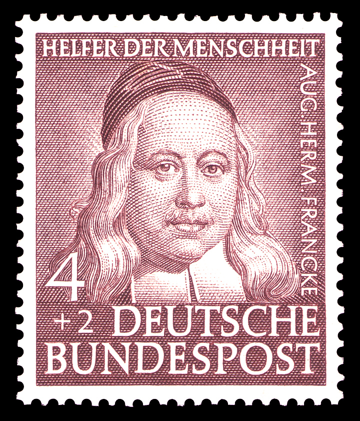 Social welfare stamp series 1953, August Hermann Francke (1663-1727) Graphics by Hermann Zapf Ausgabepreis: 4+2 Pfennig First Day of Issue / Erstausgabetag: 2. November 1953 Michel-Katalog-Nr: 173